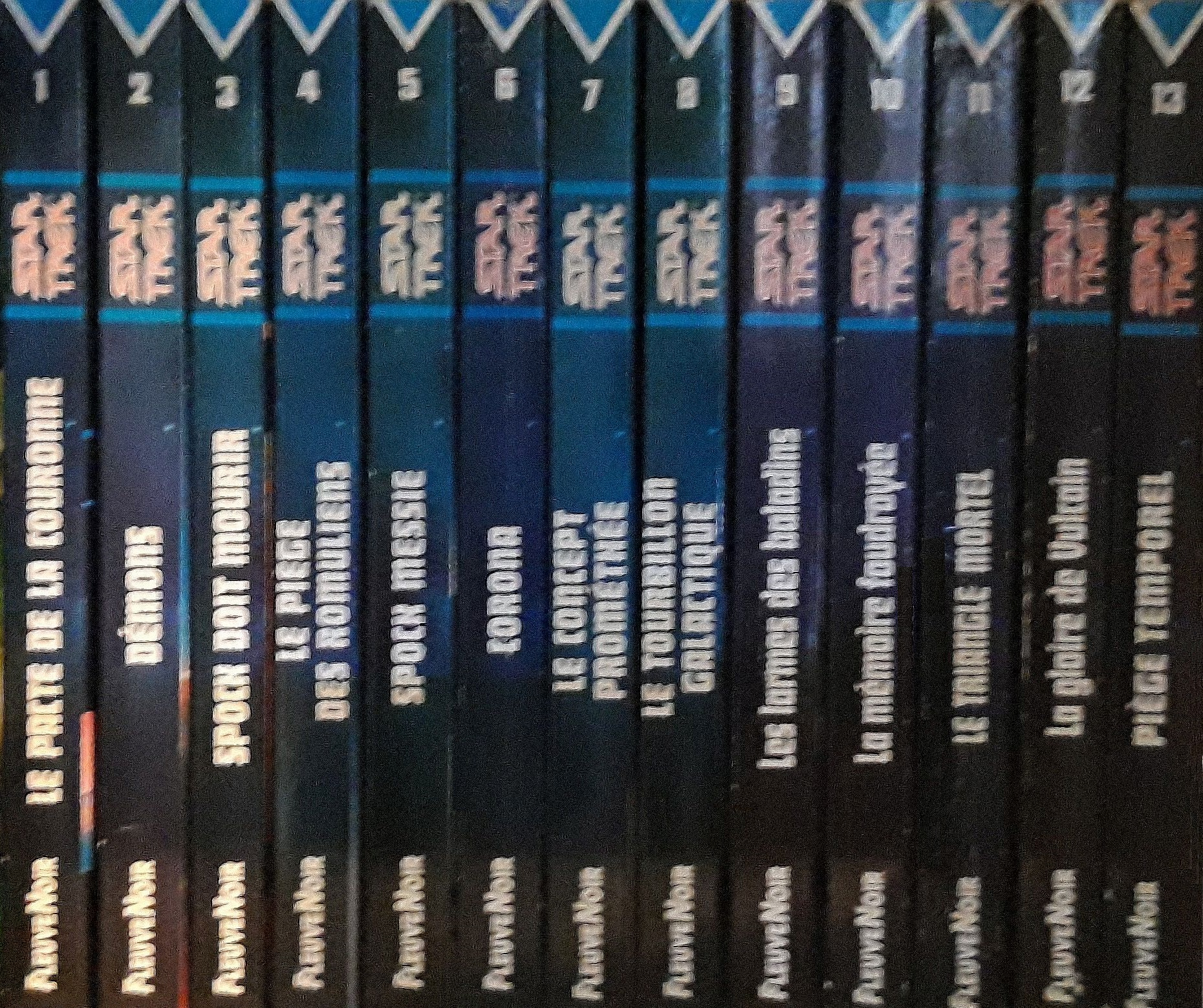 Star Trek french books first serie 1-13.